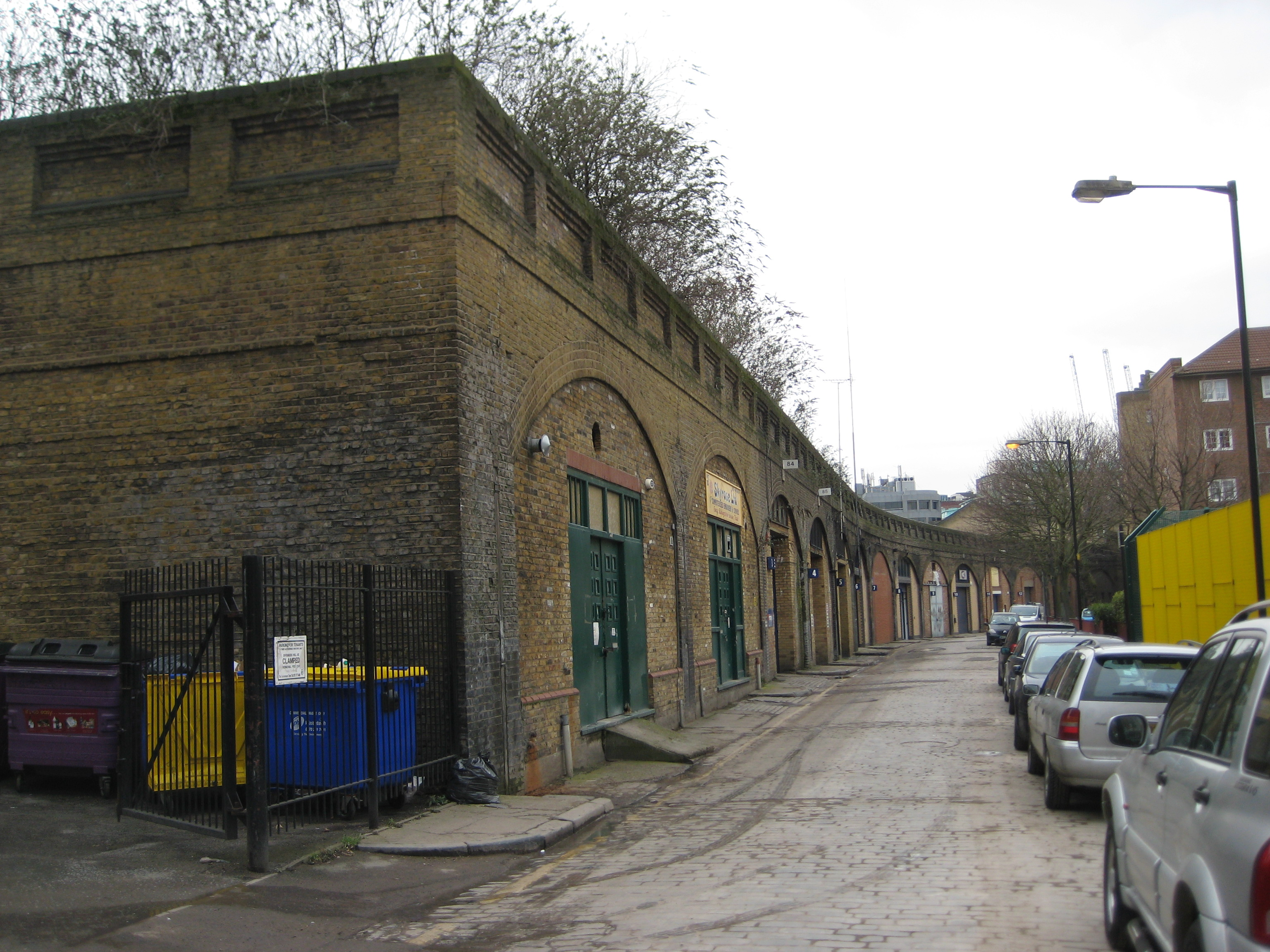 Pinchin Street, E1 The shape of this street is entirely dictated by the railway, long since gone, however the units under the arches are taken with small businesses. This was a goods railway leading north for about 400 yards from the main Fenchurch Street to Southend line, terminating at a very large goods depot bordered by Commercial Road, Gower's Walk and Leman Street.